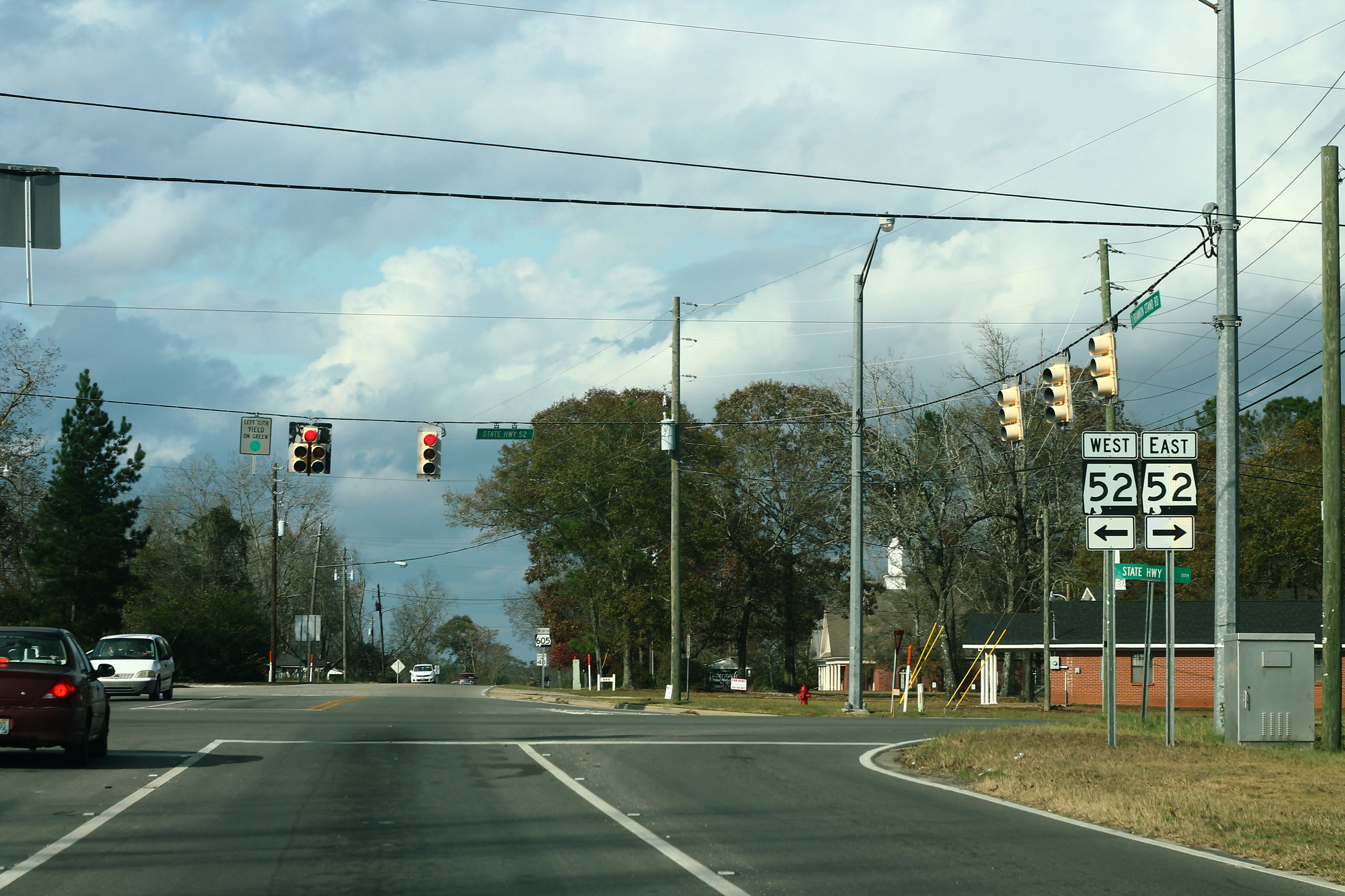 AL605nRoad-AL52ewSigns